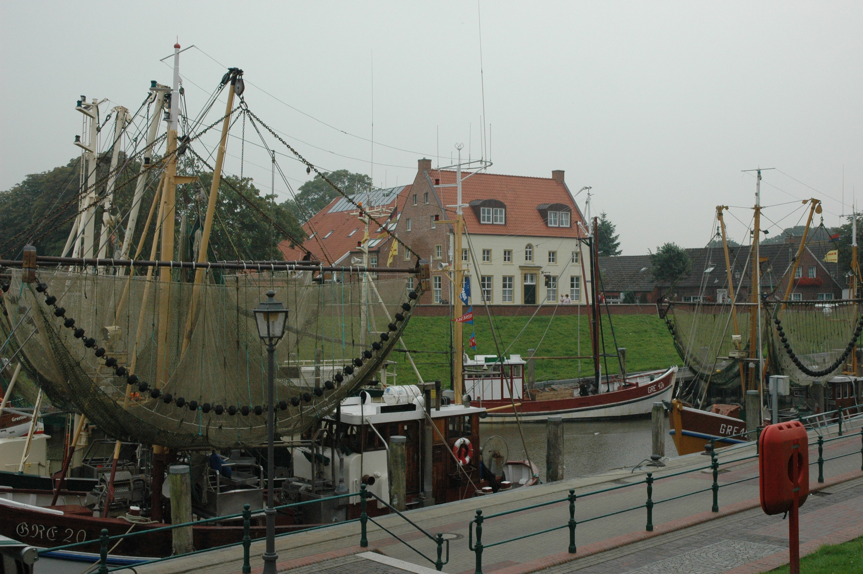 Fishing port Greetsiel,Germany